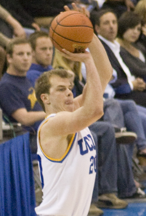 Michael Roll of UCLA